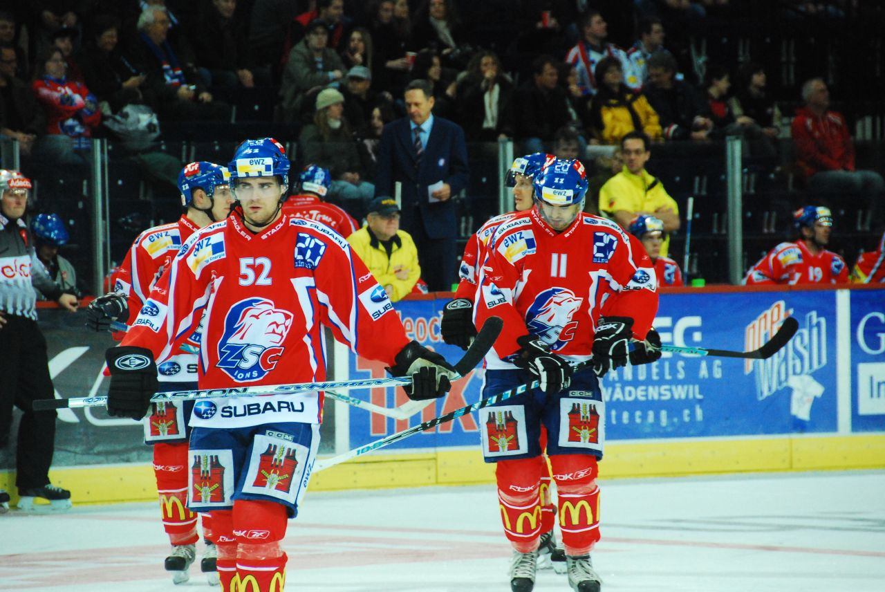 Zurich Lions players